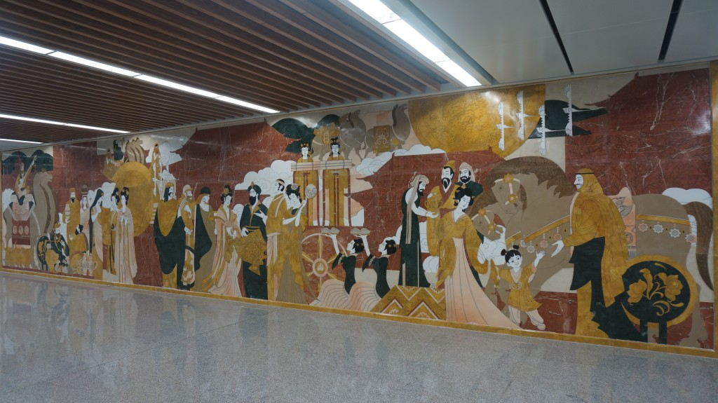 Kaiyuanmen Station Art